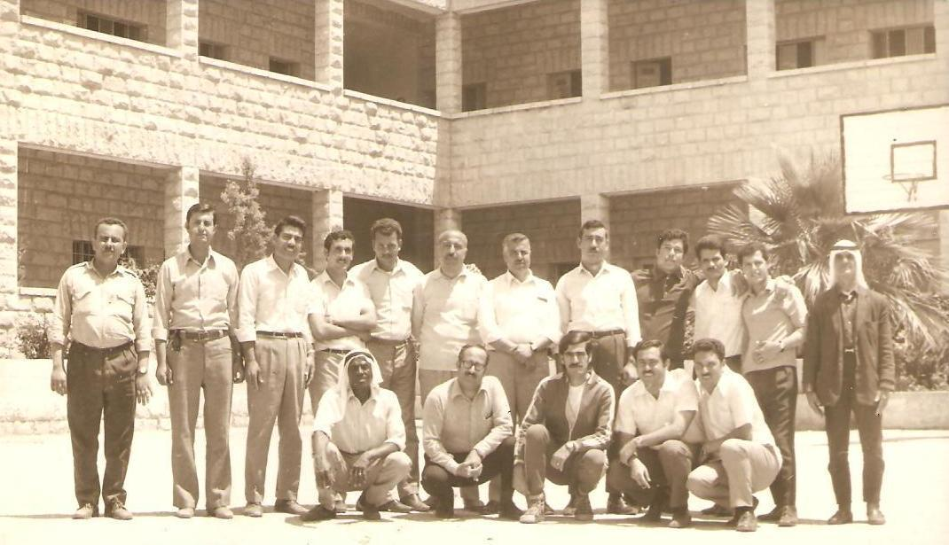 Qabatiya secondary school for boys in 1980.